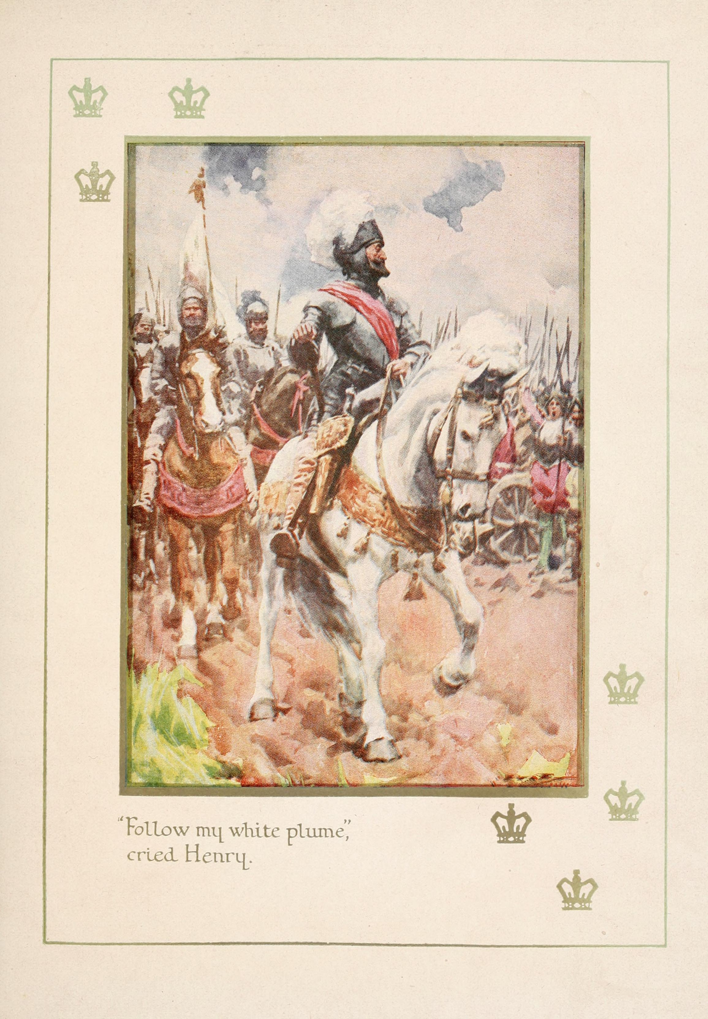 Published [c1912] Topics France -- History Publisher New York : Hodder & Stoughton, George H. Doran company Pages 622 Possible copyright status NOT_IN_COPYRIGHT Language English Call number 564148 Digitizing sponsor MSN Book contributor New York Public Library Collection newyorkpubliclibrary; americana Full catalog record MARCXML [Open Library icon]This book has an editable web page on Open Library.